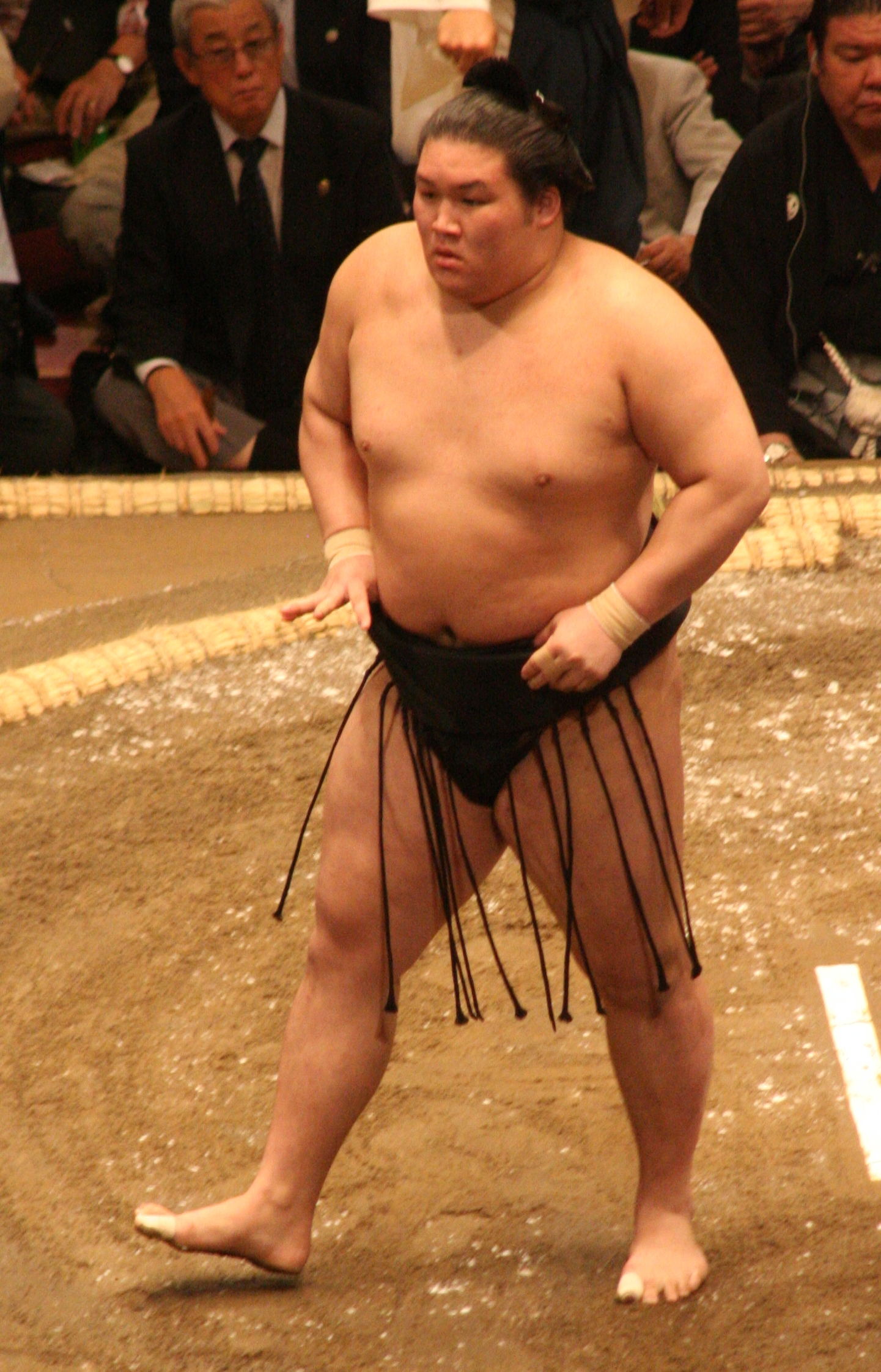 First day of 2009 May Sumo Tournament in Tokyo, Japan - Goeido